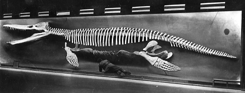 Photo of Kronosaurus queenslandicus as it is mounted today, in its place before the glass was added to protect it. The mount was done in 1957 at Harvard by Dr. Romer, Arnie Lewis and my dad. Dad took this photo and bequeathed it to me in his will. I am the sole owner of this image and I wish to make it available to anyone anywhere for their use, and place no restrictions on its use. There is no one else who has an interest in this image. Doctorjrj 22:02, 8 March 2007 (UTC)